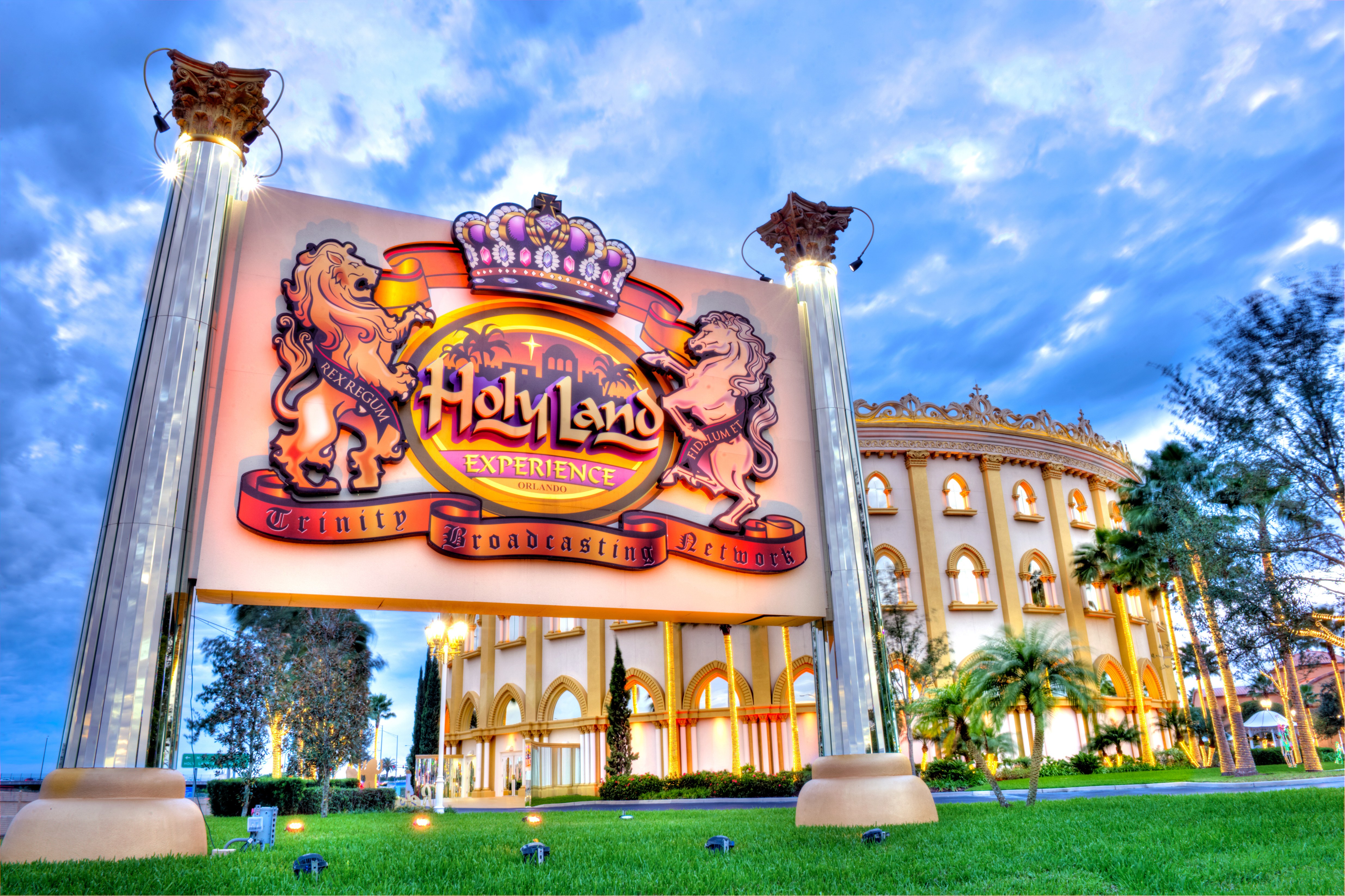 Holy Land Experience - Church of All Nations